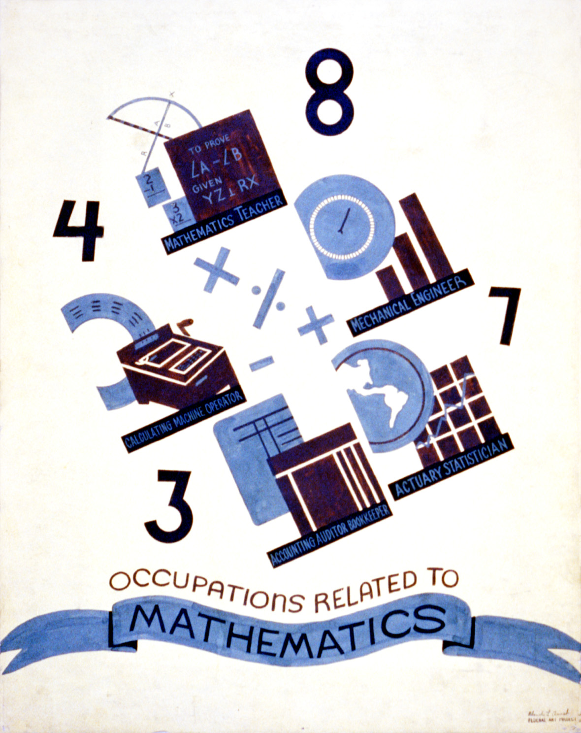 Occupations related to mathematics: mathematics teacher, calculating machine operator, mechanical engineer, accounting auditor bookkeeper, actuary statistician.